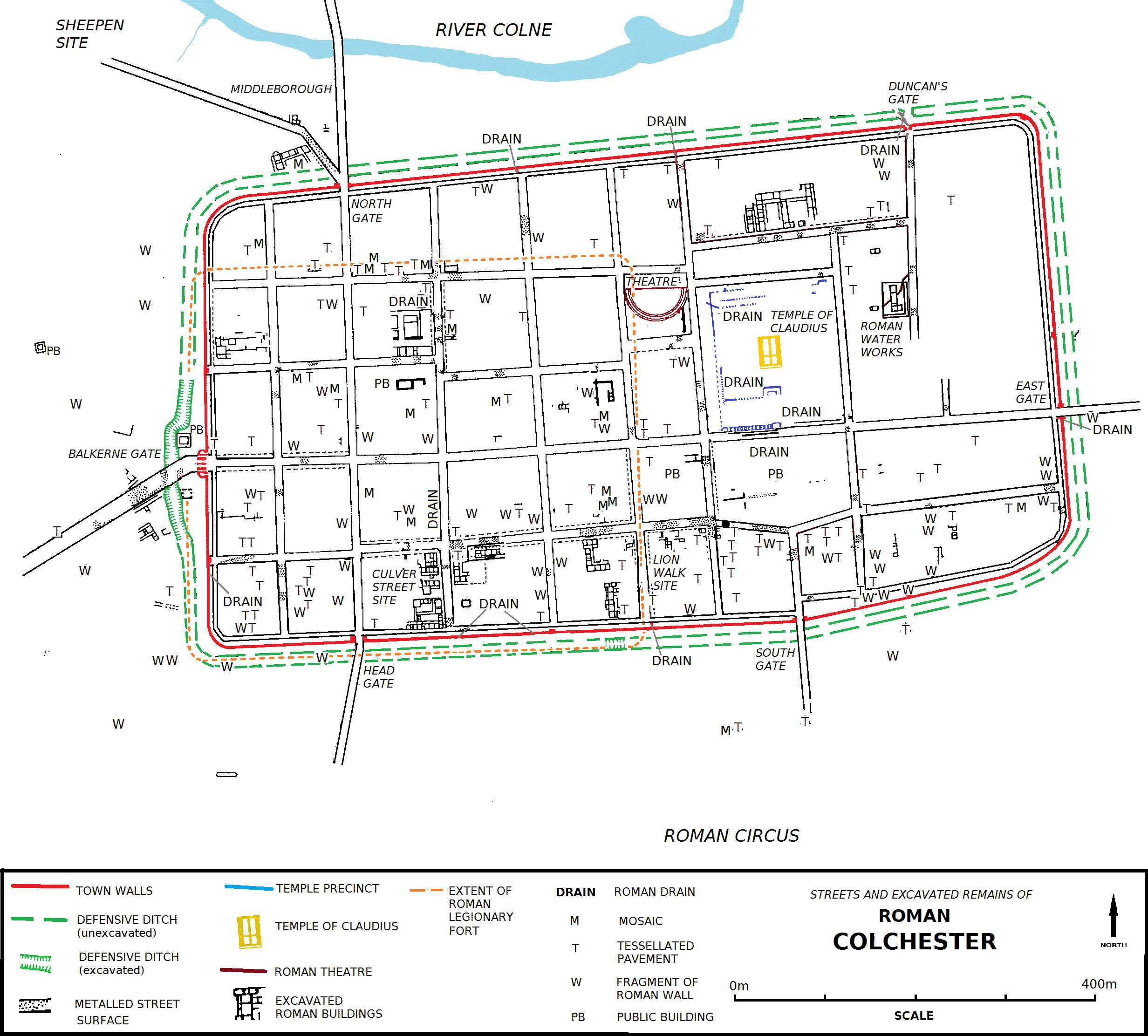 Map of the Roman streets and excavated remains in Colchester, Essex.